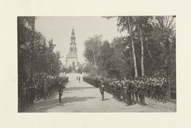 Monument to Alexander II in Chenstochov